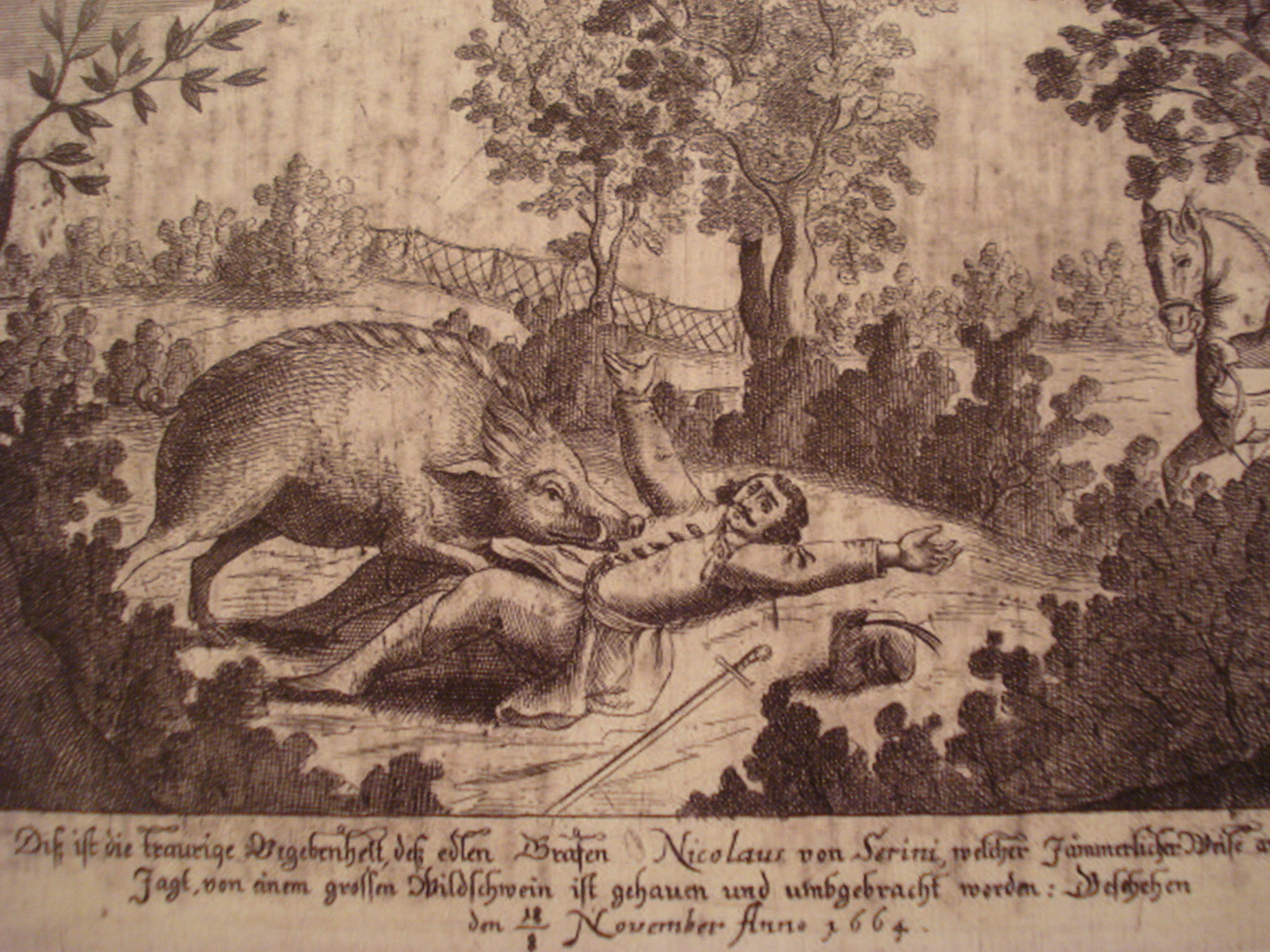 The death of Nikola VII Zrinski, Ban (Viceroy) of Croatia, in Kuršanečki lug by Čakovec on 18th November 1664